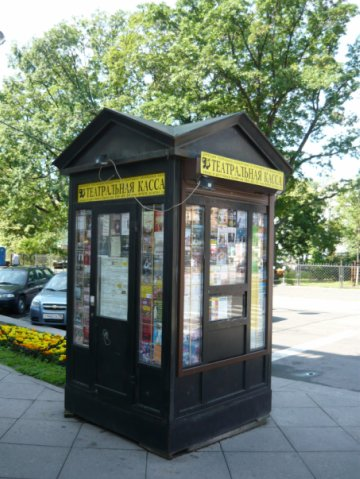 Theatral kiosk on Nevsky prospect (St.Petersburg)